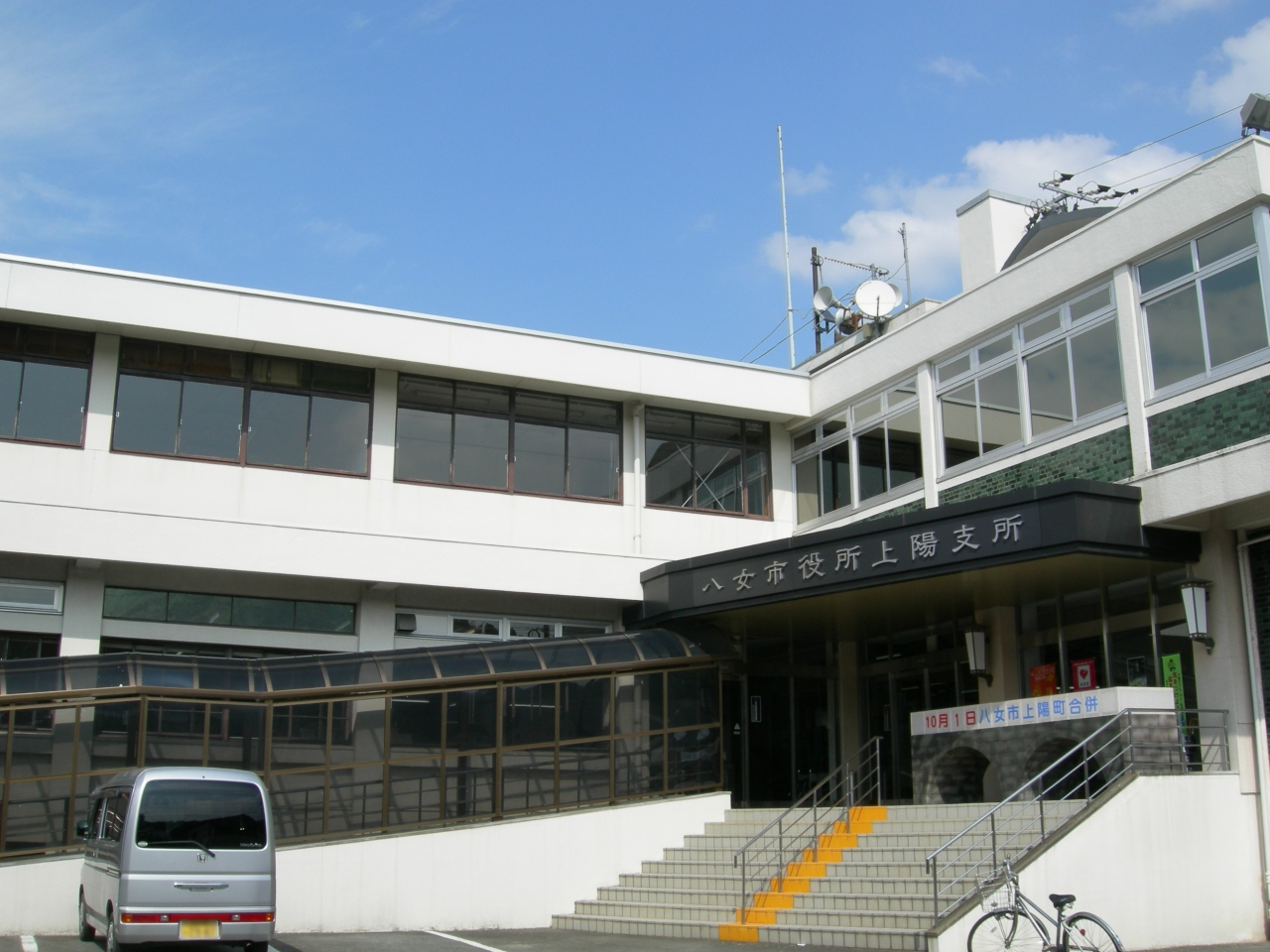 Yame city hall Joyo branch (old Joyo town hall)